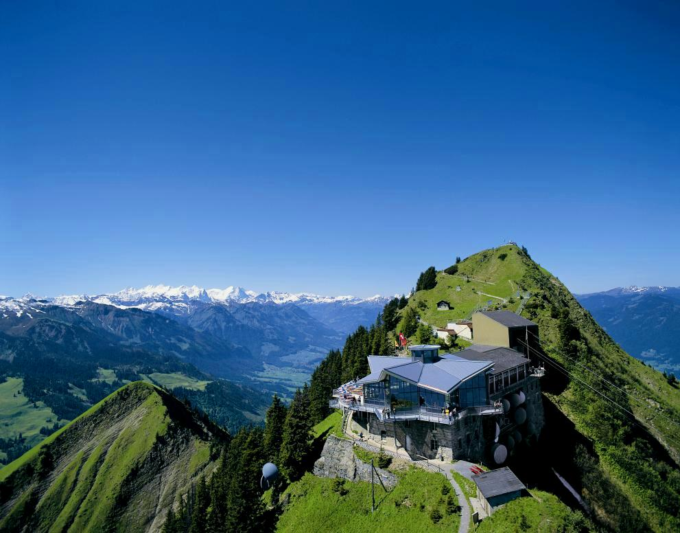 Stanserhorn, central Switzerland